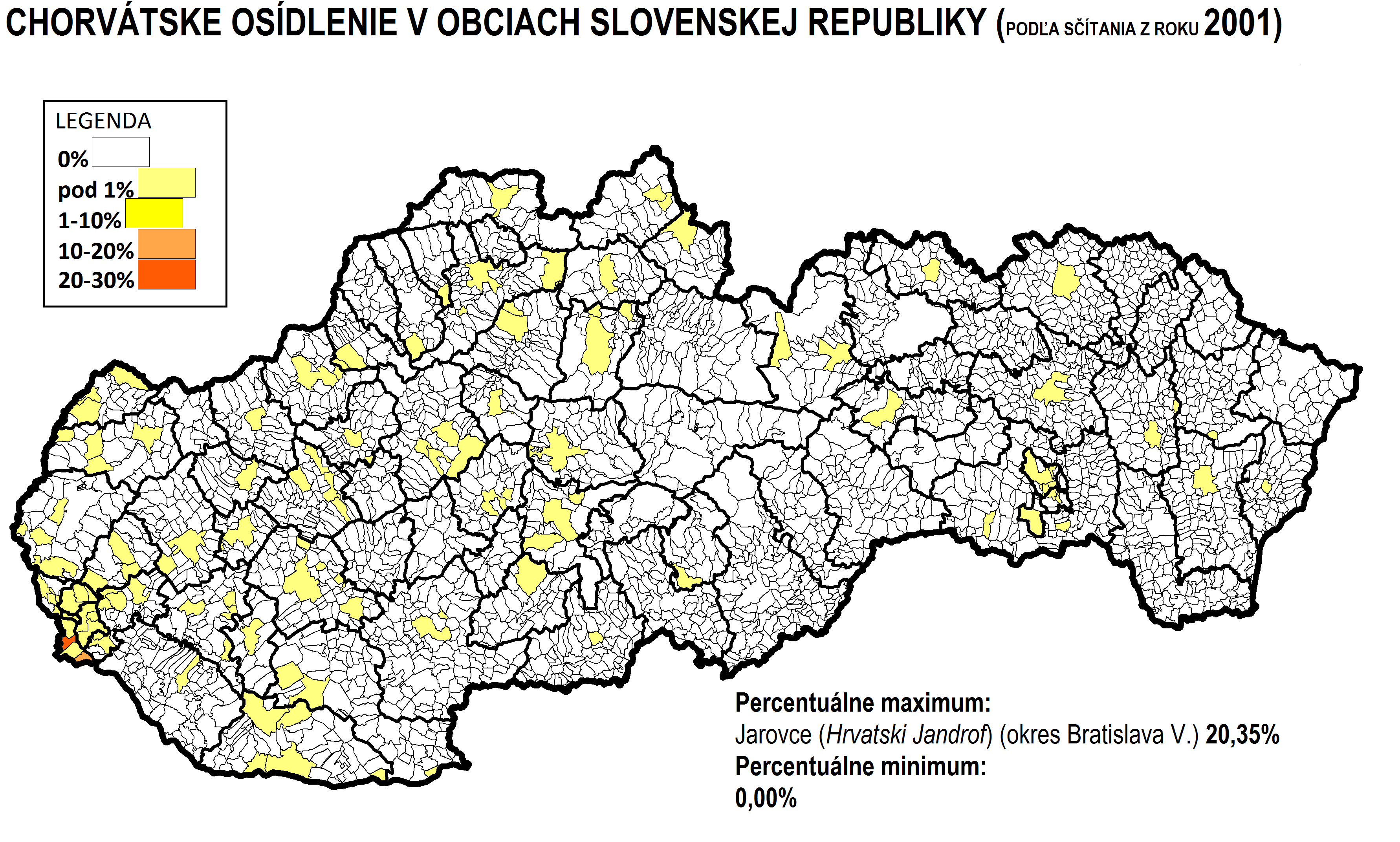 Croats in Slovakia (2001).